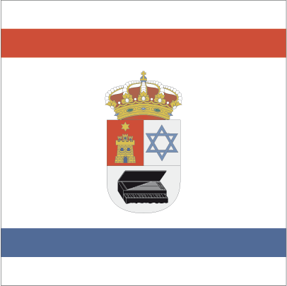 Castrillo Matajudíos flag